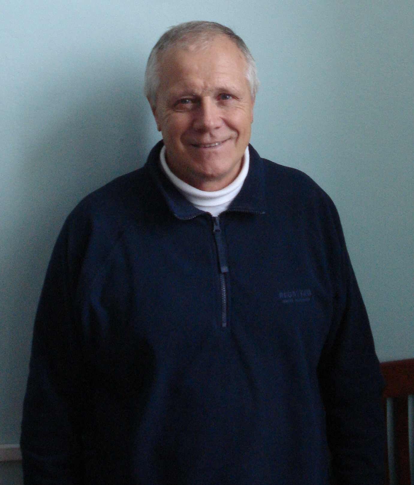 Alpinist Eduard Vikentievich Myslovsky